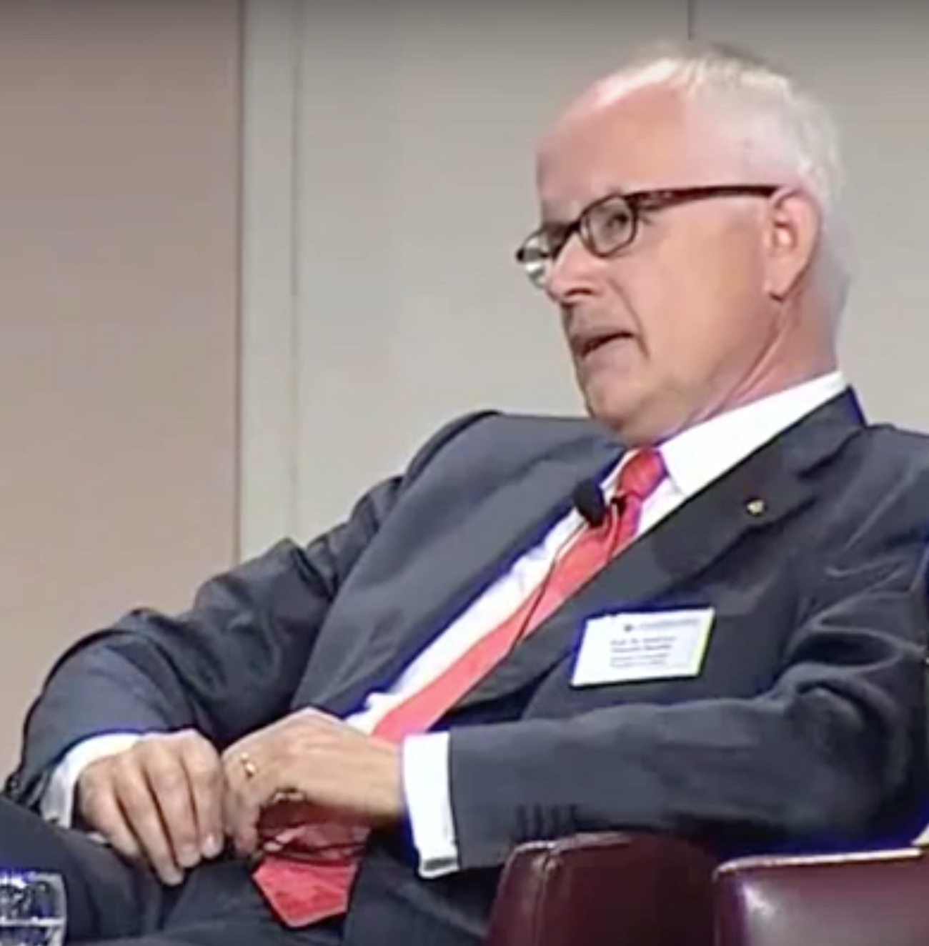 Theodor Baums in 2010 at a Conference on Corporate Governance in Frankfurt, Germany